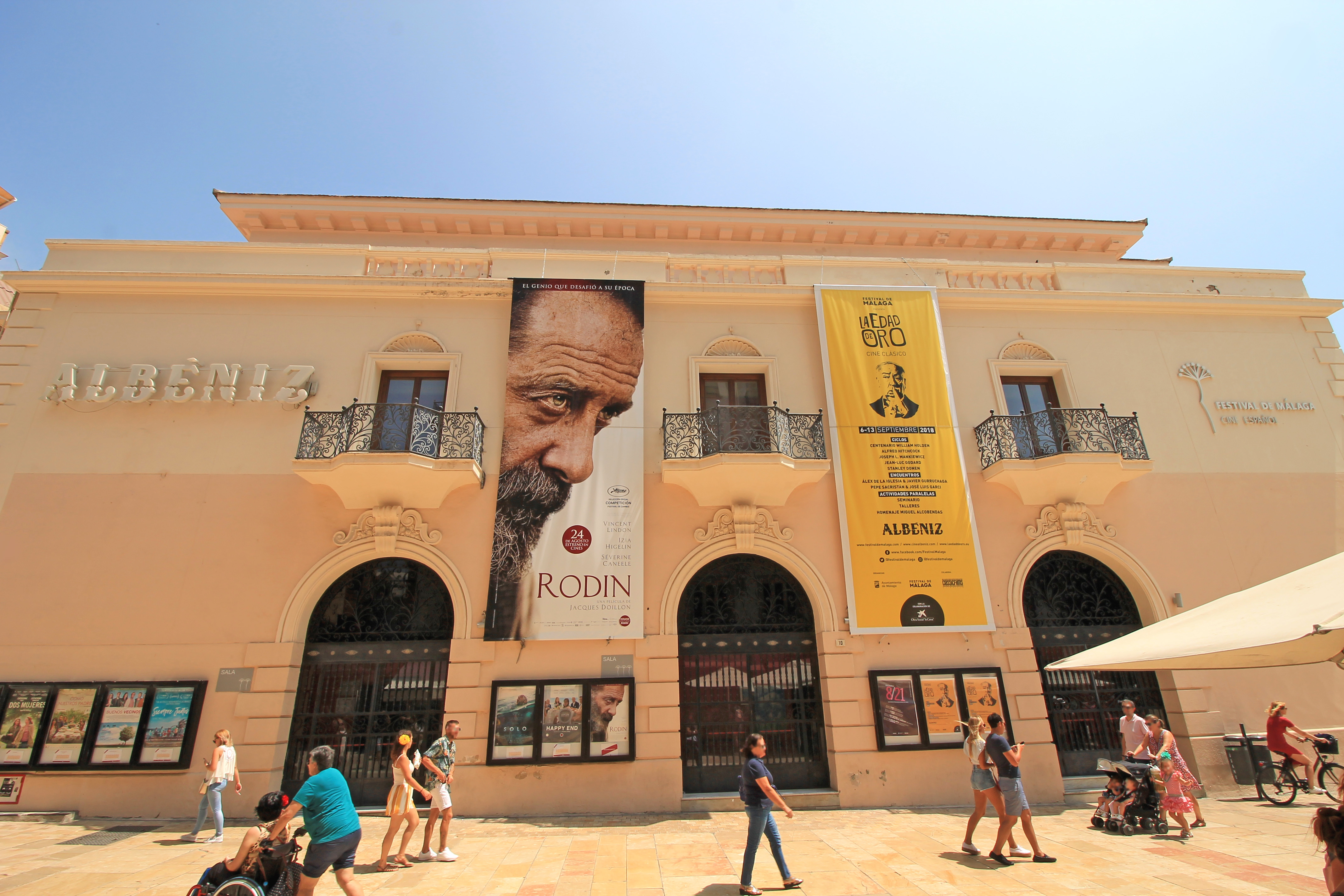 West façade of Cine Albéniz (a cinema) in Málaga (Spain).